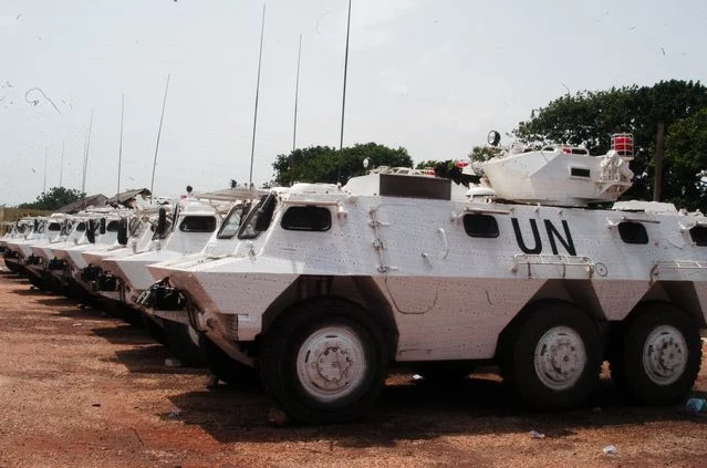 WZ-523 armoured personnel carriers of the Ghanaian Army, earmarked for peacekeeping operations.